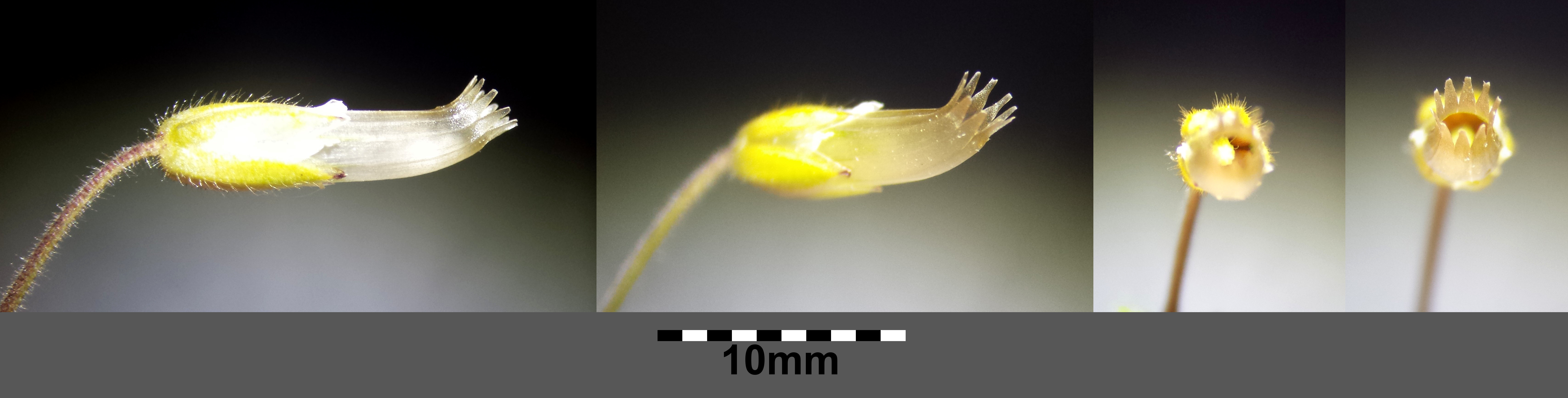 Fruit Taxonym: Cerastium holosteoides ss Fischer et al. EfÖLS 2008 ISBN 978-3-85474-187-9 Location: near Niederhollabrunn, district Korneuburg, Lower Austria - ca. 350 m a.s.l. Habitat: wine yard